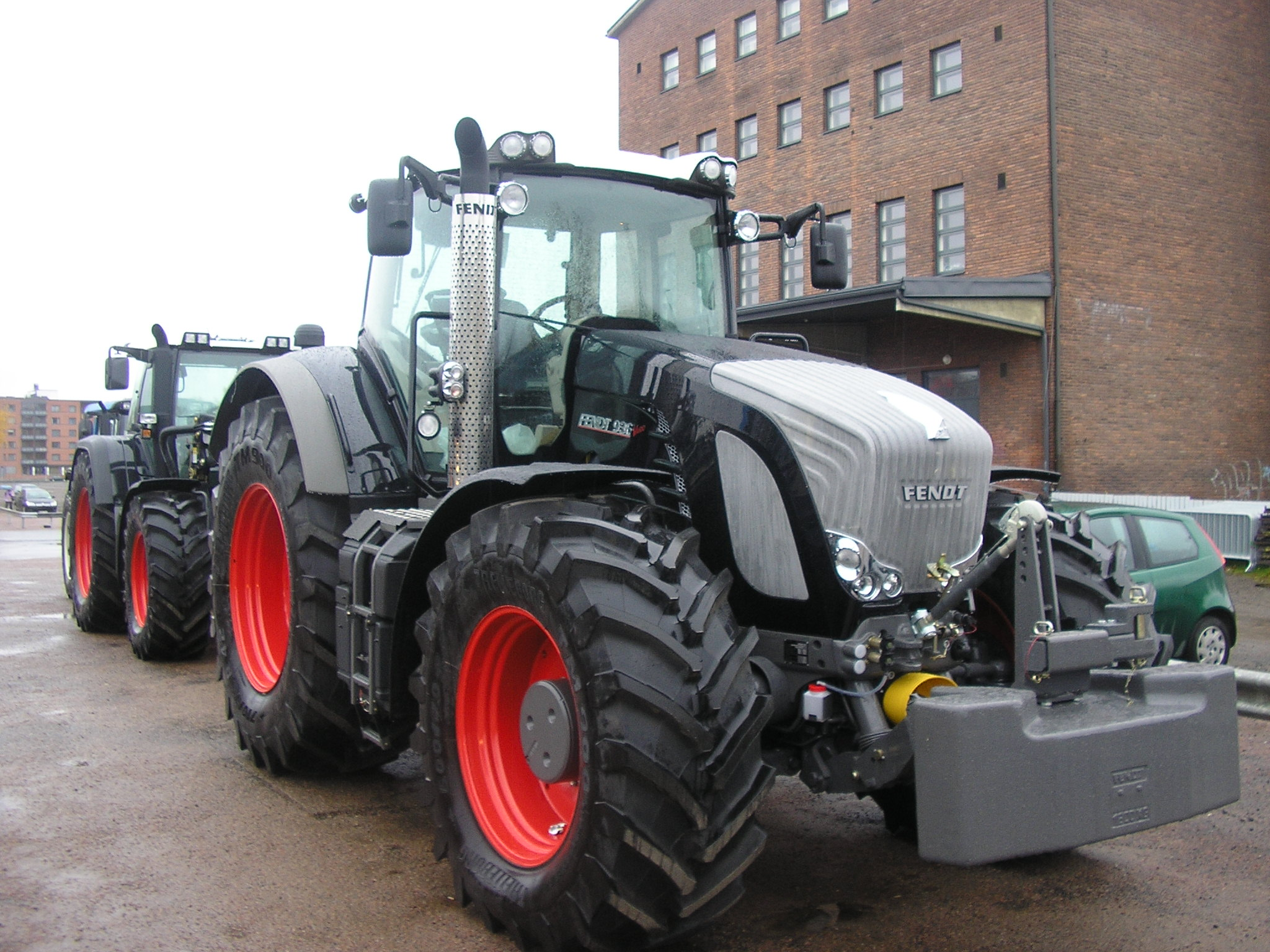 Fendt 936 Vario tractor "Black Beauty", Lutakko, Finland